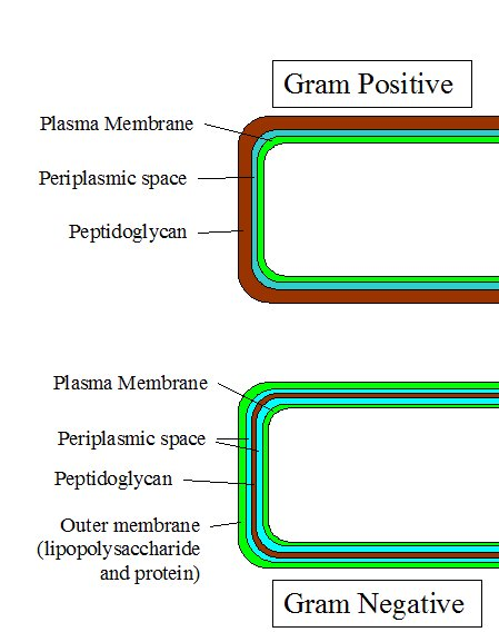 Diagram showing the gram positive/negative cell wall